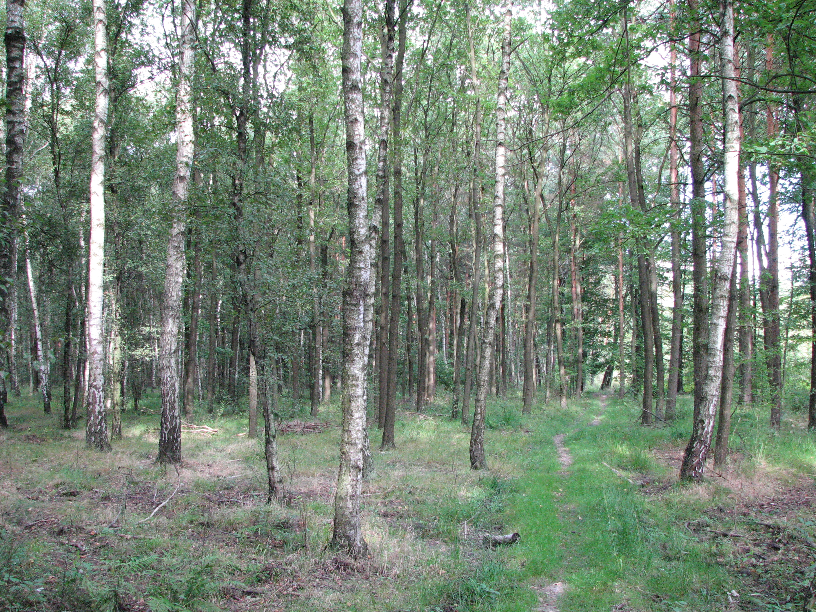 Panewniki's Forests in Katowice, Poland